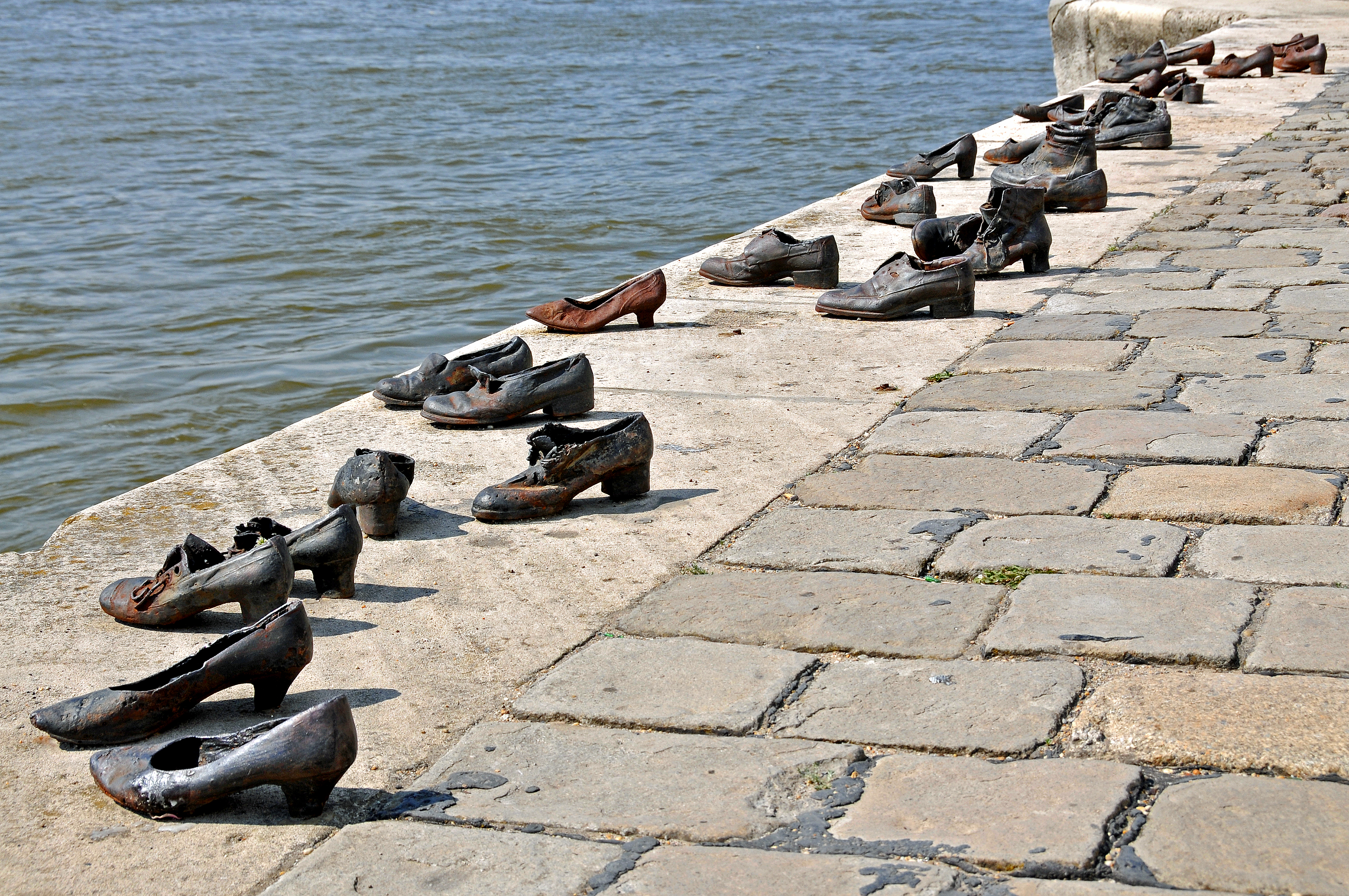 Sculpture. Shoes on the banks of the Danube